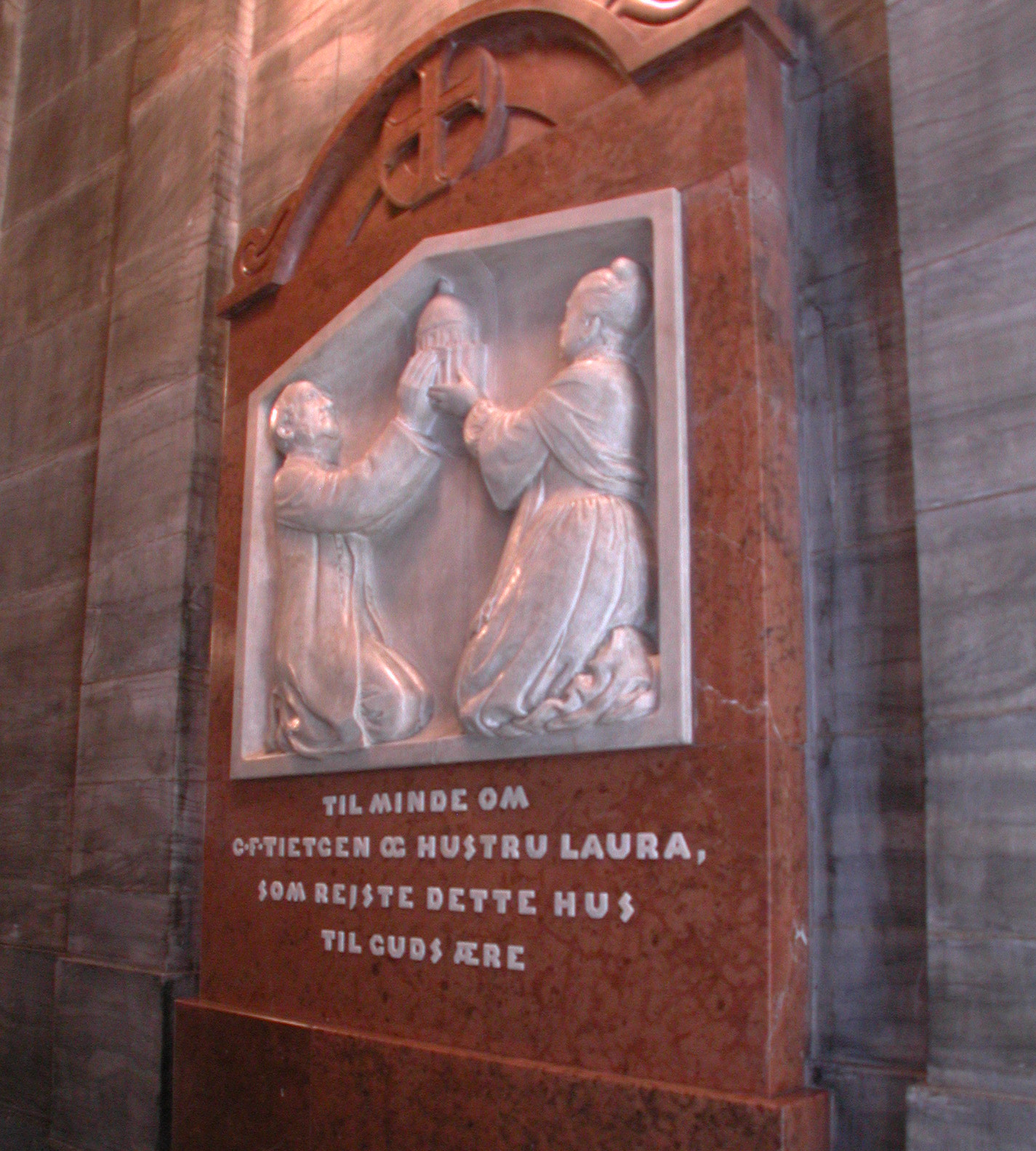 Marmorkirken, Copenhagen, Denmark. Epitaph for the builder and his wife.